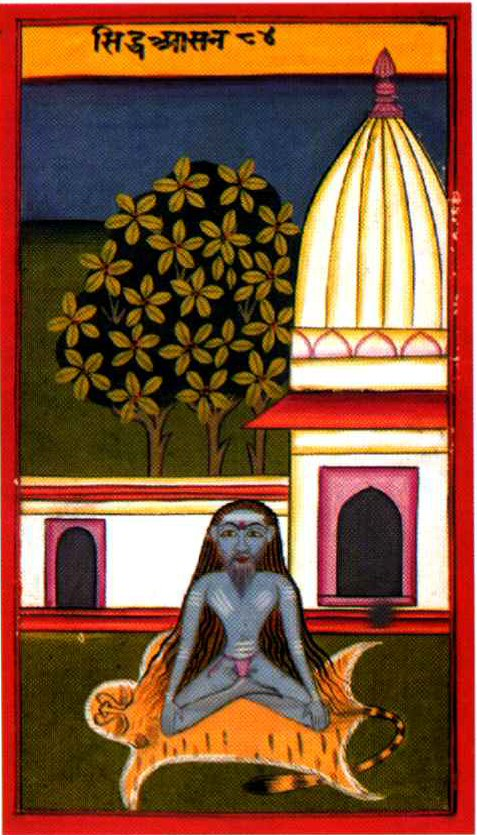 Illustration of Siddhasana yoga pose from manuscript of, 1830.